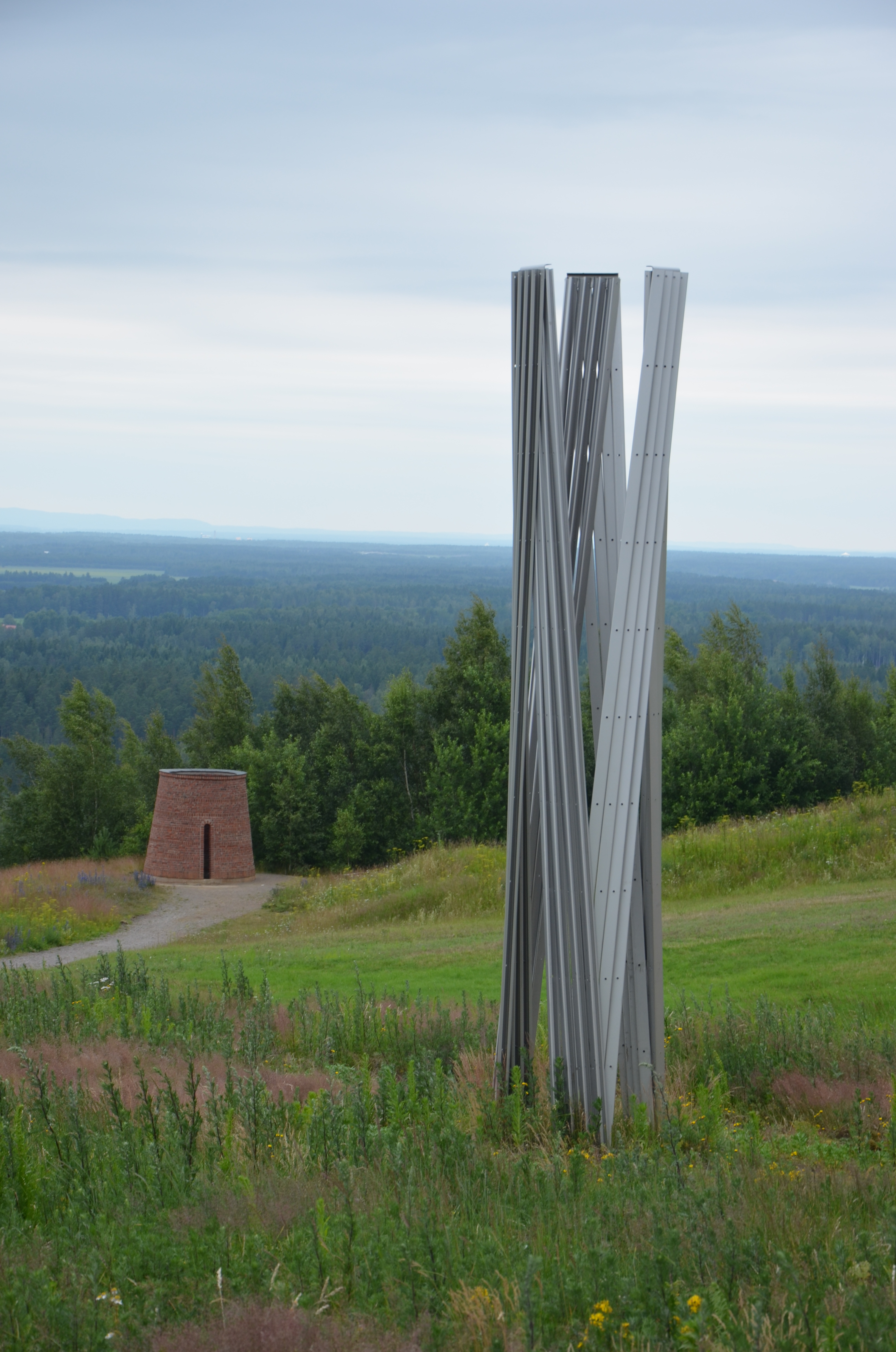 Stabil by Lars Englund, Konst på Hög, Kumla, Sweden